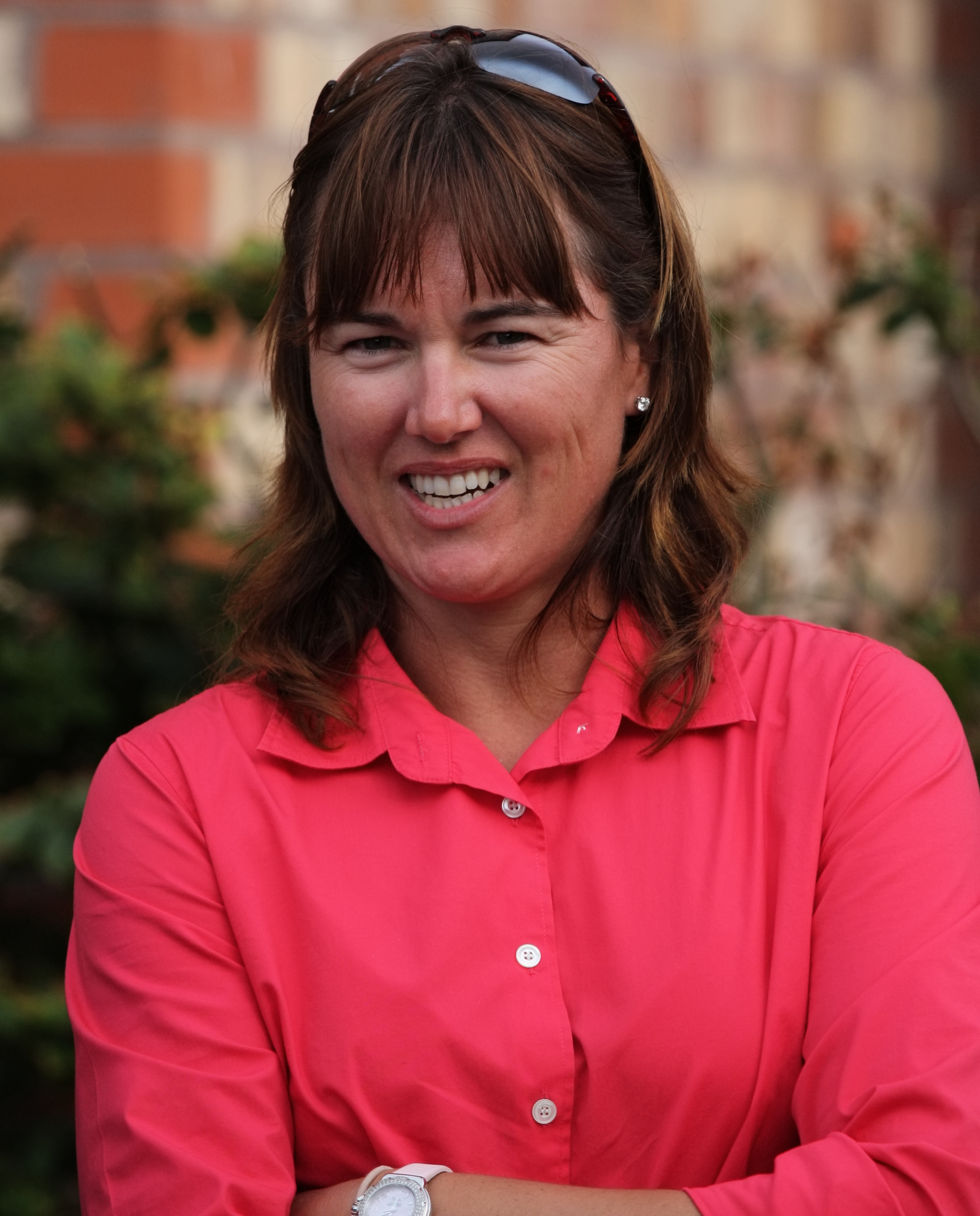 LYTHAM ST ANNES, UNITED KINGDOM - AUGUST 02: Sophie Gustafson of Sweden outside Clubhouse prior to the Solheim Cup Teams announcement following 2009 Ricoh Women's British Open held at Royal Lytham & St Annes on August 2, 2009 in Lytham St Annes, England. (Photo by Wojciech Migda)